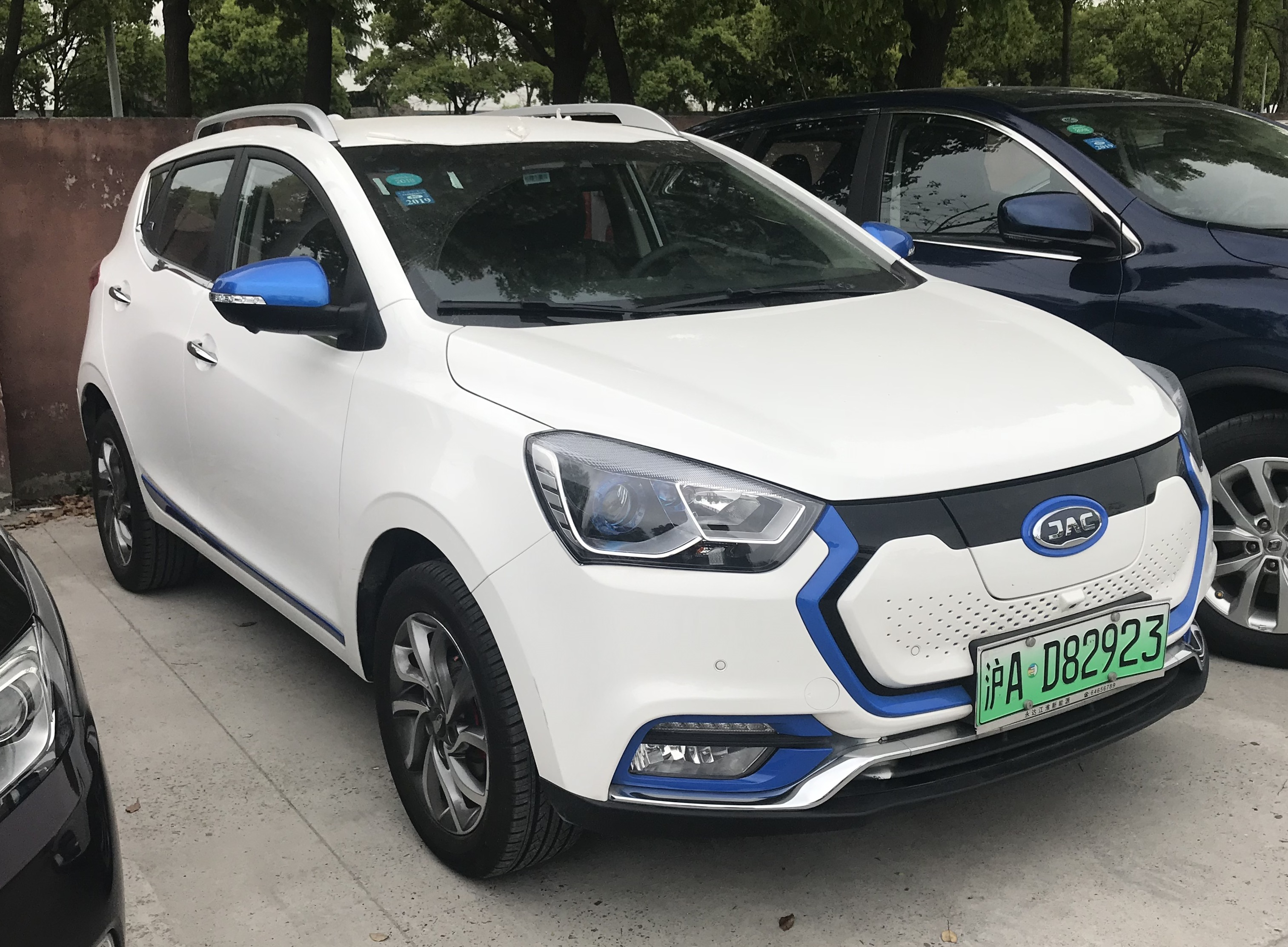 JAC iEV7S